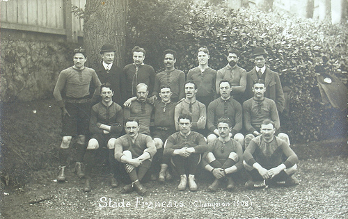 Stade Francais rugby union squad, 1908 champions.